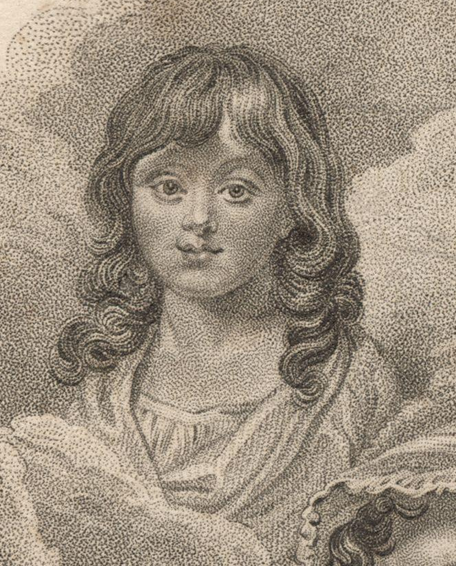 Extracted from Apotheosis of the Princes Octavius & Alfred, and of the Princess Amelia (Prince Octavius; Princess Amelia; Prince Alfred), by William Marshall Craig. According to the caption on the original image, it was derived from a "picture by Gainsborough in the Queen's Palace."